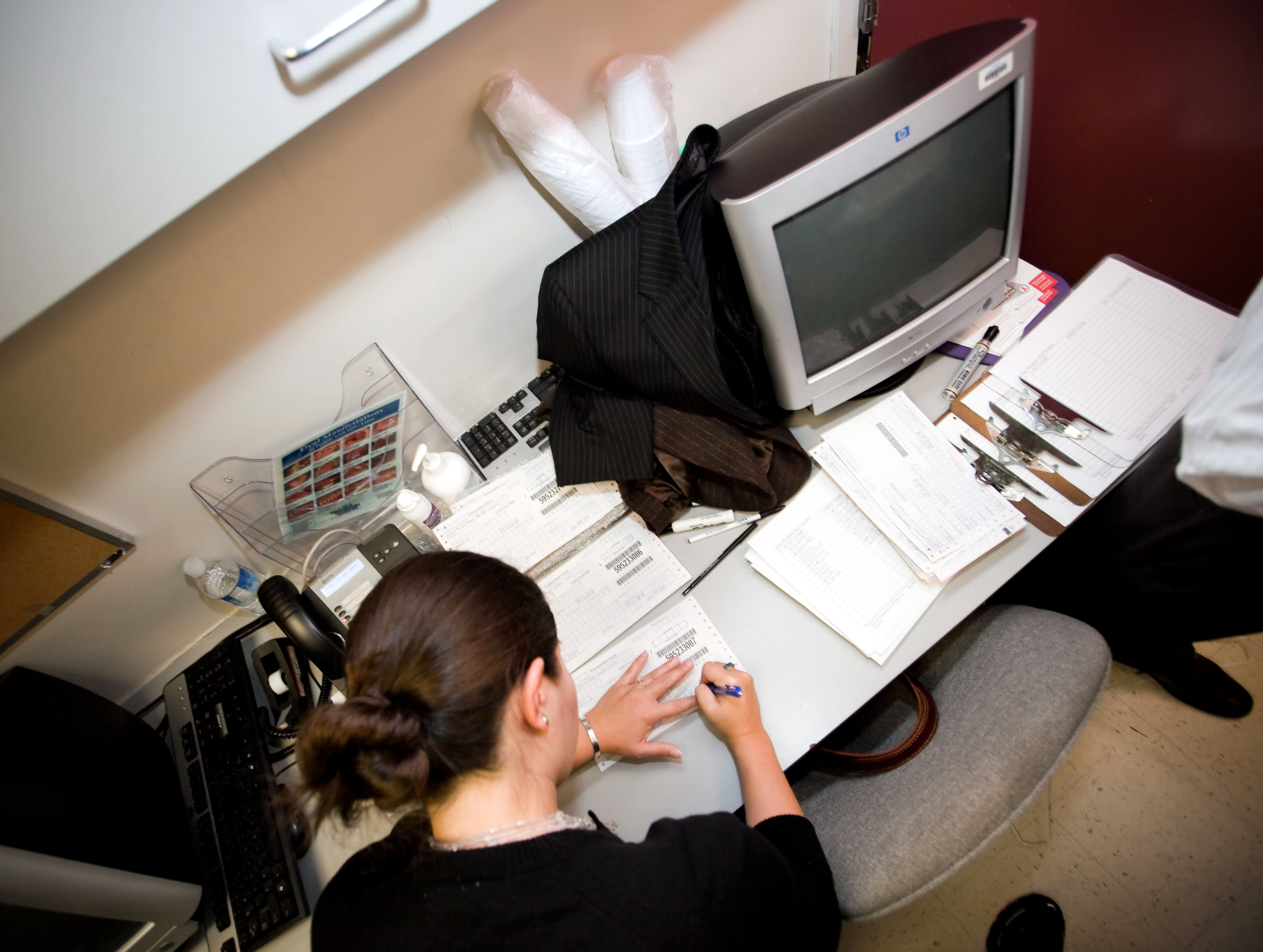 "Peace Corps Director Aaron S. Williams and Peace Corps staff supported the Whitman-Walker Clinic in its HIV/AIDS prevention efforts by organizing and boxing medical records for archiving." The Whitman-Walker Clinic is located at 1701 14th Street, N.W., in the Logan Circle neighborhood of Washington, D.C.